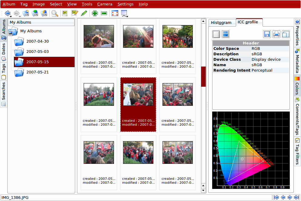 Screenshot of digiKam, displaying ICC profile of an image.